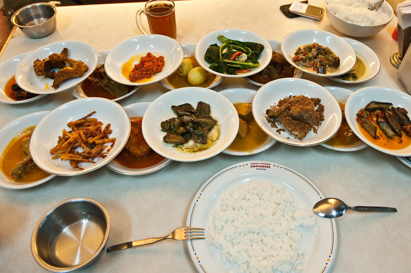 Minangkabau cuisine (Padang food) served at a restaurant in Bukittinggi. For the uninitiated, all of the bowls of food are laid out in front of you, you pay for whatever bowl you eat from.